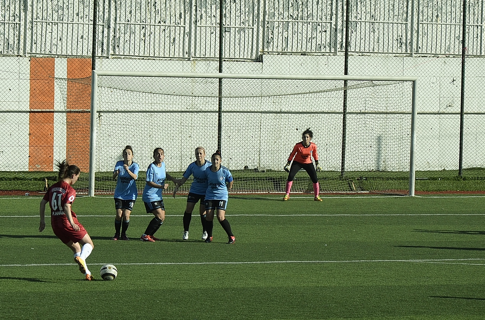 Ataşehir Belediyespor vs MarmaraÜniversitesi Spor on January 19, 2014